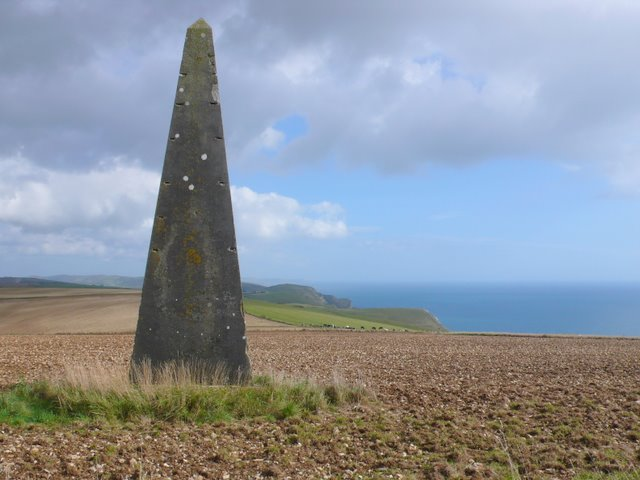 Old Navigation Beacon Chaldon Down This old triangular obelisk built from stone and faced with mortar is located just north of the south west coast path just east of White Nothe. This is the view east towards Lulworth Cove.